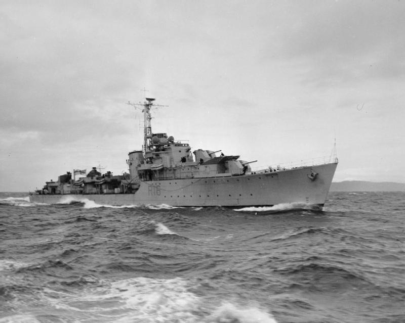 Royal Canadian Navy C class destroyer HMCS Crescent (R16).